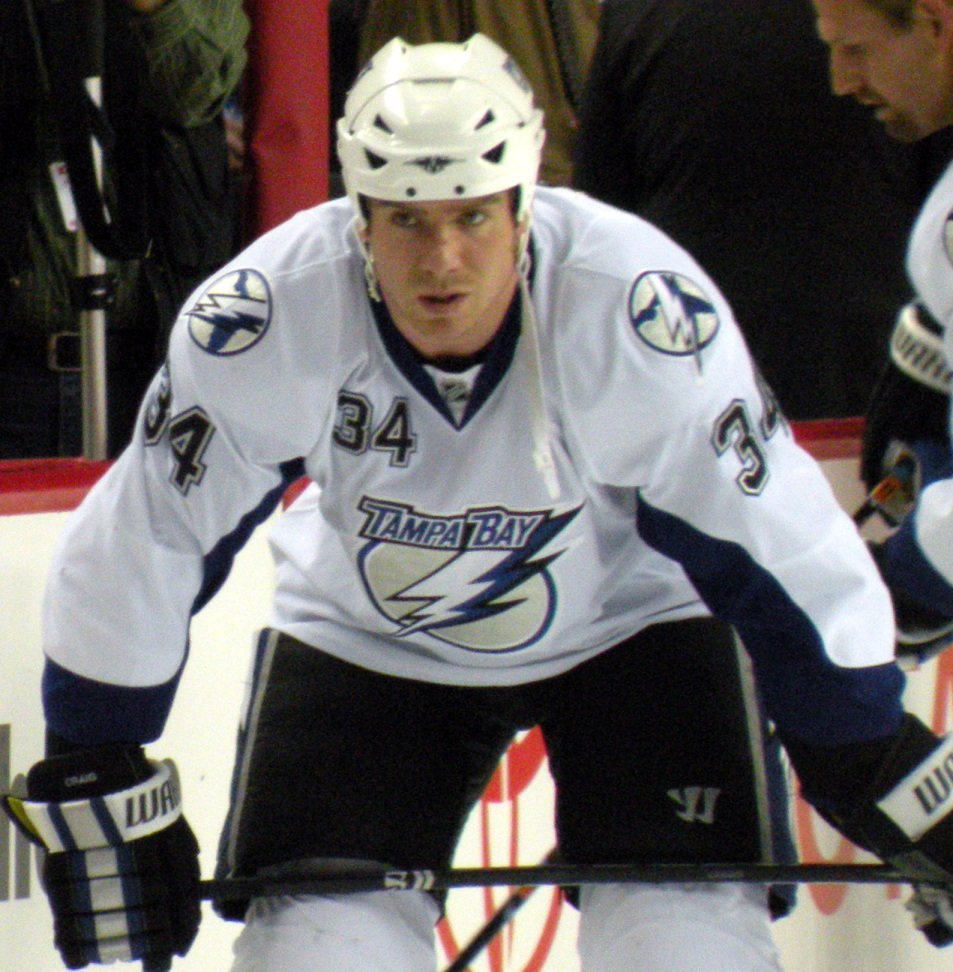 Ryan Craig of the Tampa Bay Lightning warming up prior to a game against the Calgary Flames in Calgary.